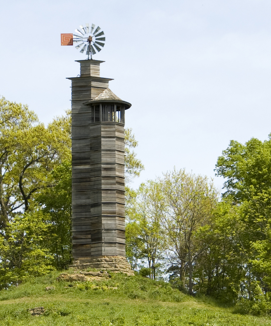 Romeo and Juliet Windmill (original 1896) at Taliesin near Spring Green, Wisconsin. Designed by Frank Lloyd Wright In 1938 the deteriorating original structure was replaced by an exact replica.